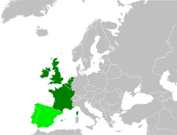 Approximation for Western European countries